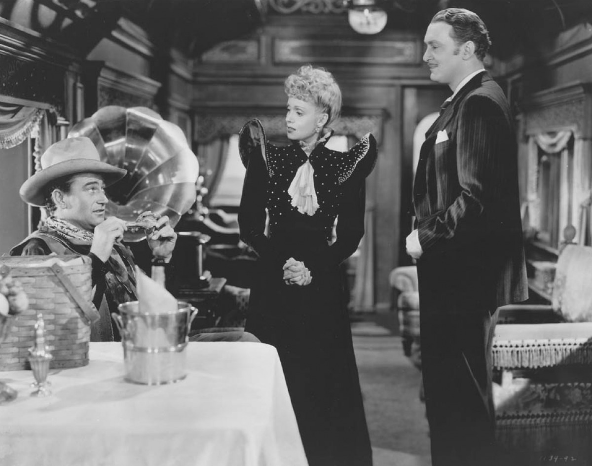 L. to R. : John Wayne, Martha Scott & Albert Dekker in In Old Oklahoma aka War of the Wildcats - cropped screenshot